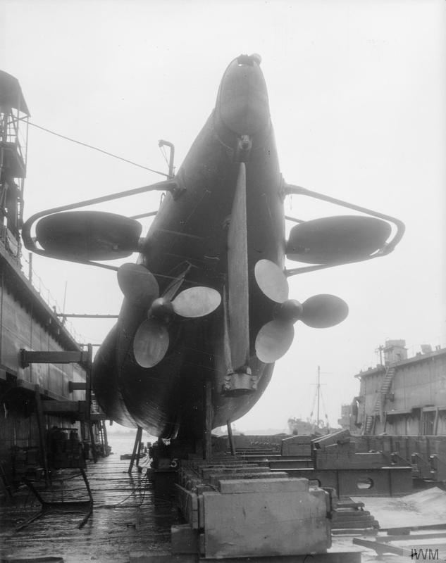 The Royal Navy on the Home Front, 1914-1918 British submarine HMS E34 in dry dock, showing propellers.